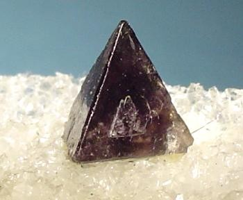 Chambersite Locality: Barbers Hill Salt Dome (Barbers Hill), Mont Belvieu, Chambers County, Texas, USA (Locality at ) Size: 0.7 x 0.6 x 0.6 cm. A RARE, well-crystallized TEXAS mineral! Chambersite is an ultra-rare borate found in a few salt domes, worldwide. This sharp, gemmy, purple crystal has classic pyramidal form, with good lustre, and comes from the Type Locality. Ex. Dick Jones Collection.